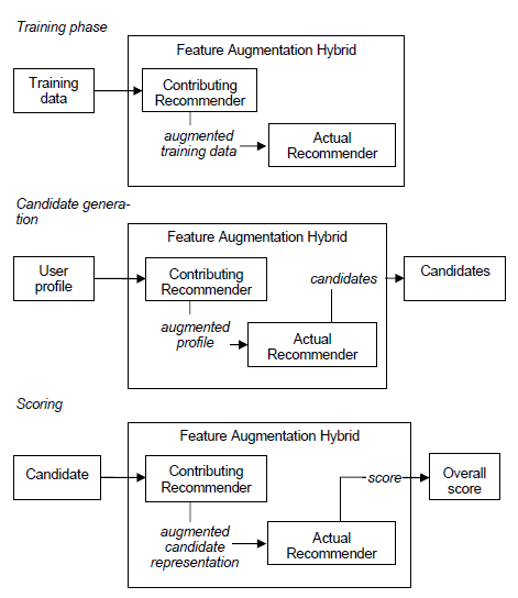 Sistema de Recomanació Híbrid, Augment de qualitats